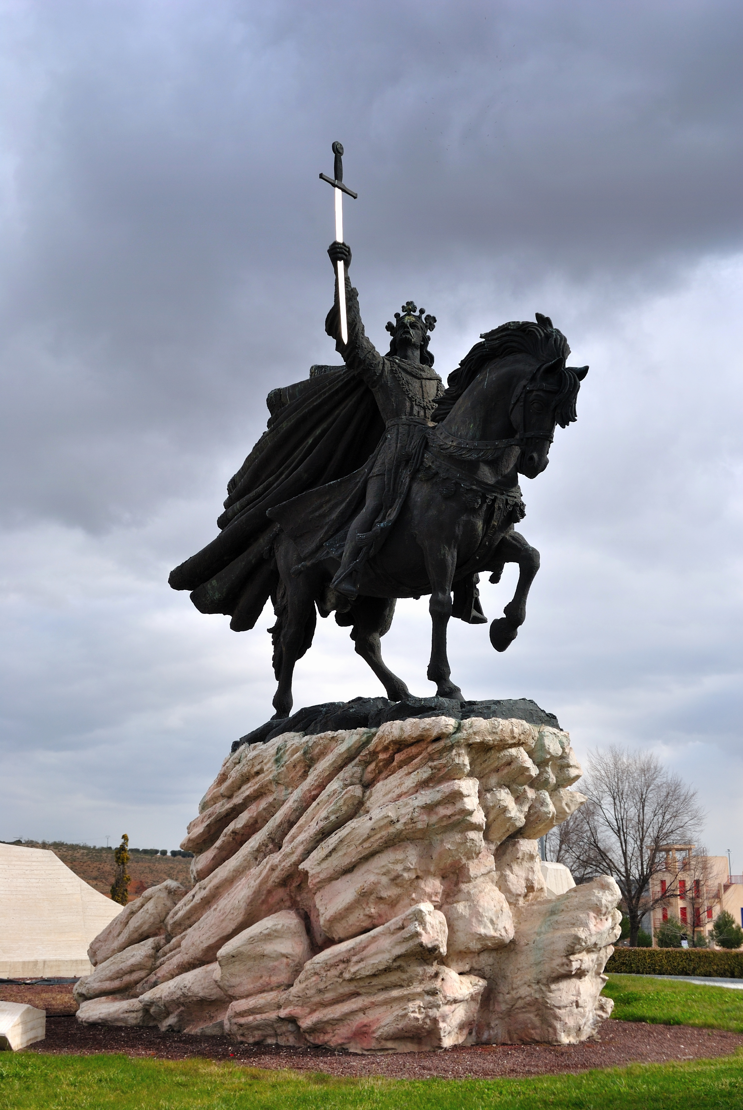 Statue of Alfonso VI of León in Toledo, Castile-La Mancha, Spain.